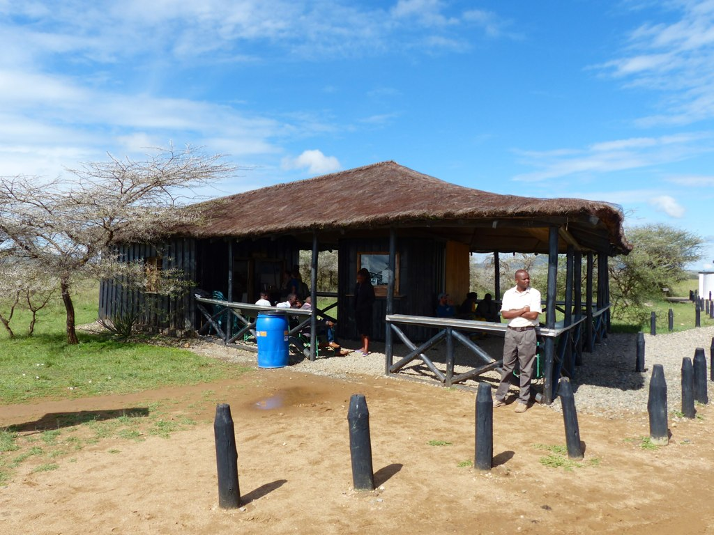 Seronera